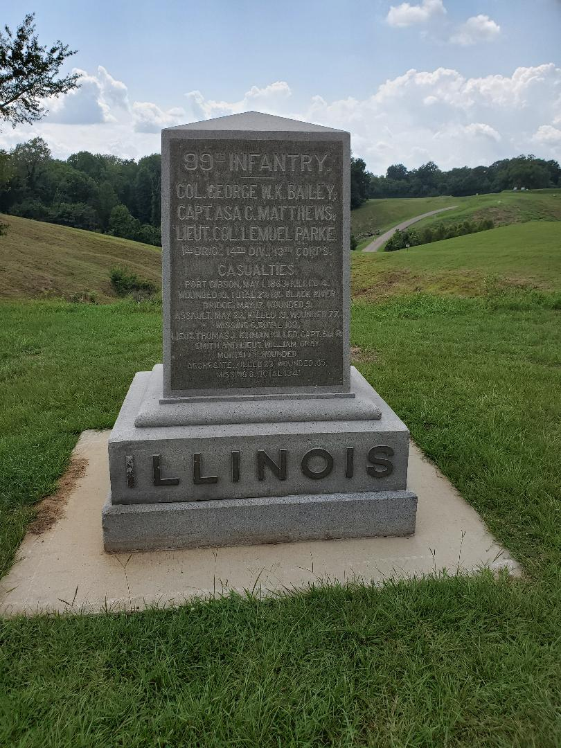 99th Illinois Volunteer Infantry Regiment Monument at Vicksburg National Military Park. Photo taken in 2019.